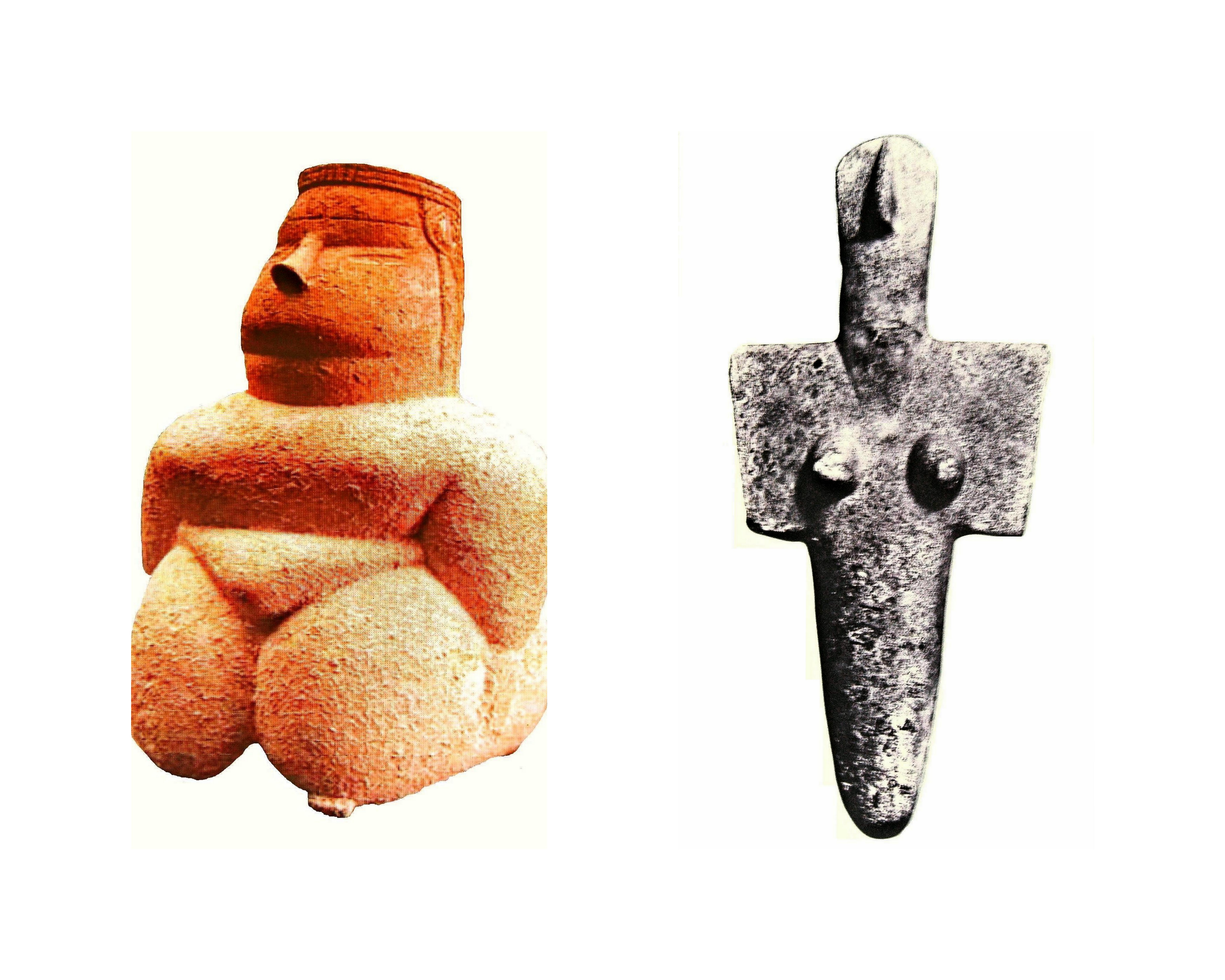 Images from Commons: Cuccurru s'arriu1.JPG (file) Dea madre 1.JPG (file)